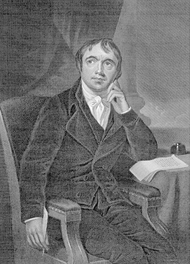 (wp-EN) John Philpot Curran (1750-1817), Irish orator, politician and wit.